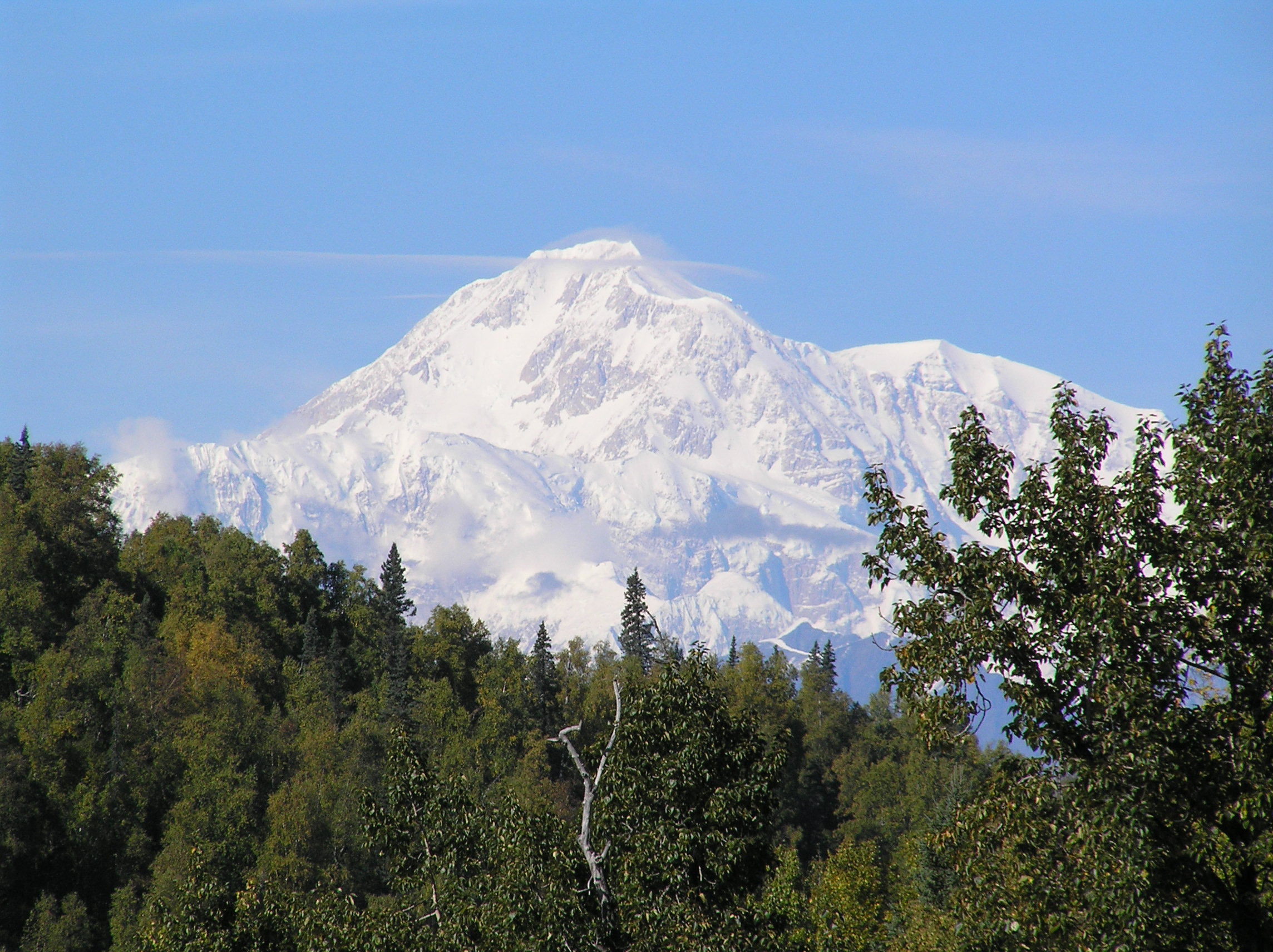 Denali, Alaska